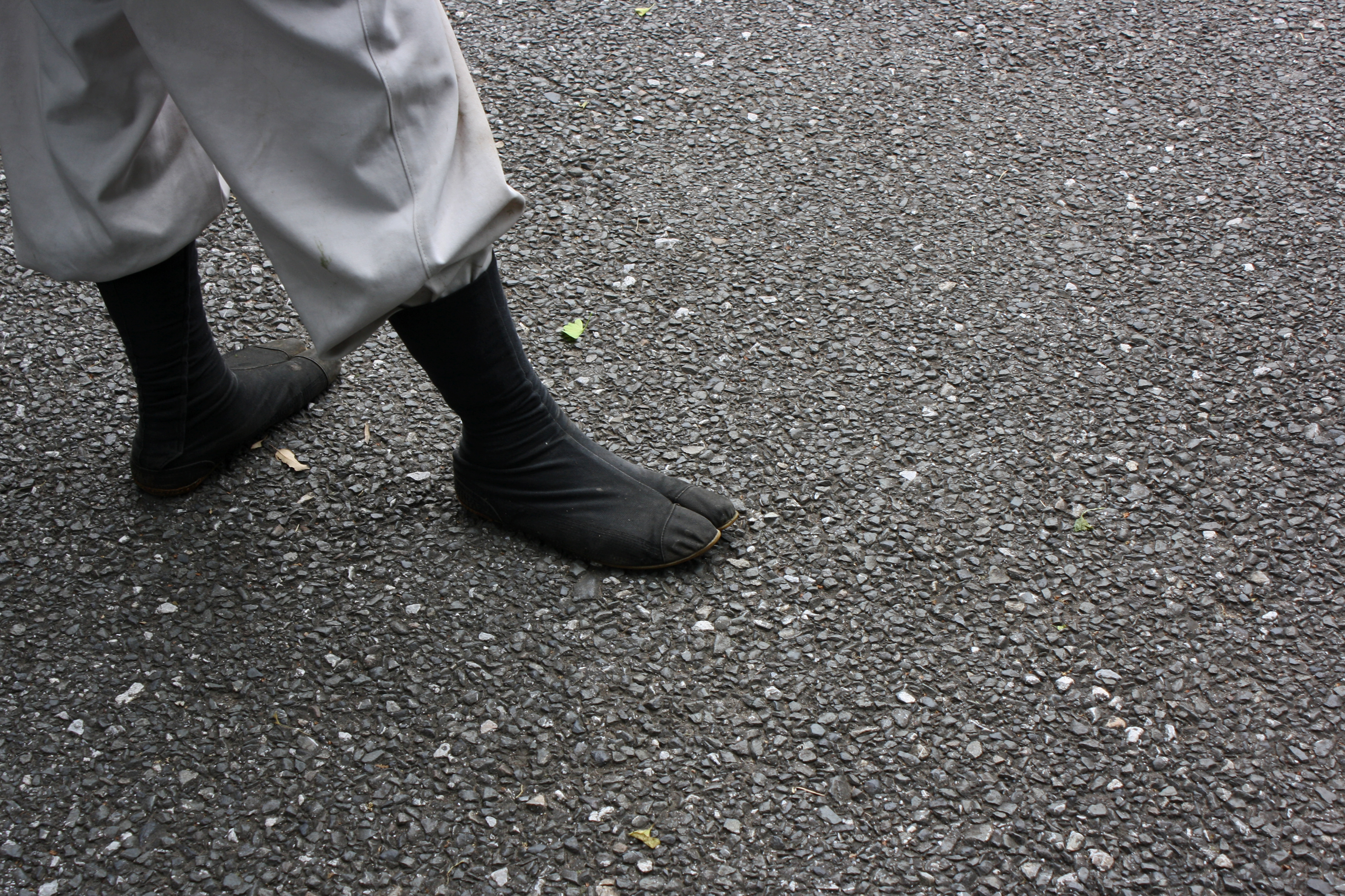 I thought those two-toed shoes that ninjas wear were... you know, just something that ninja wear. turns out i was wrong, as i saw lots of construction worker-types wearing these bad boys, known as Jika-Tabi "地下足袋" According to wikipedia, "Being made of heavy, tough material and often having rubber soles, jika-tabi are often used by construction workers, farmers and gardeners, rickshaw-pullers, and other workmen. Though slowly being replaced by steel-toed, rigid-sole shoes in some industries, many workers prefer them for the softness of their soles. This gives wearers tactile contact with the ground, and the concomitant gripping ability lets them use their feet more agilely than rigid-soled shoes allow. There is a line of knee-high all-rubber jika-tabi that is used by workers in rice fields and/or wet and muddy environments."